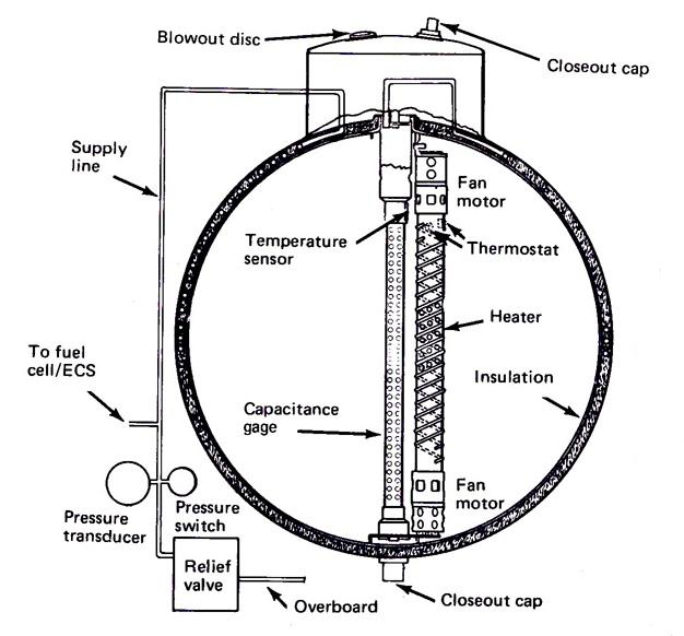 Apollo 13 details of oxygen tank number 2 and the heater and thermostat unit